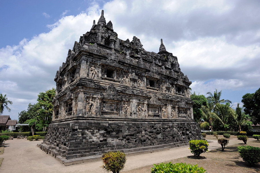 Candi Sari, java